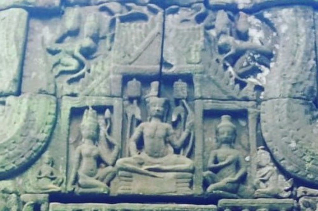 12th century Angkorian temple's pediment